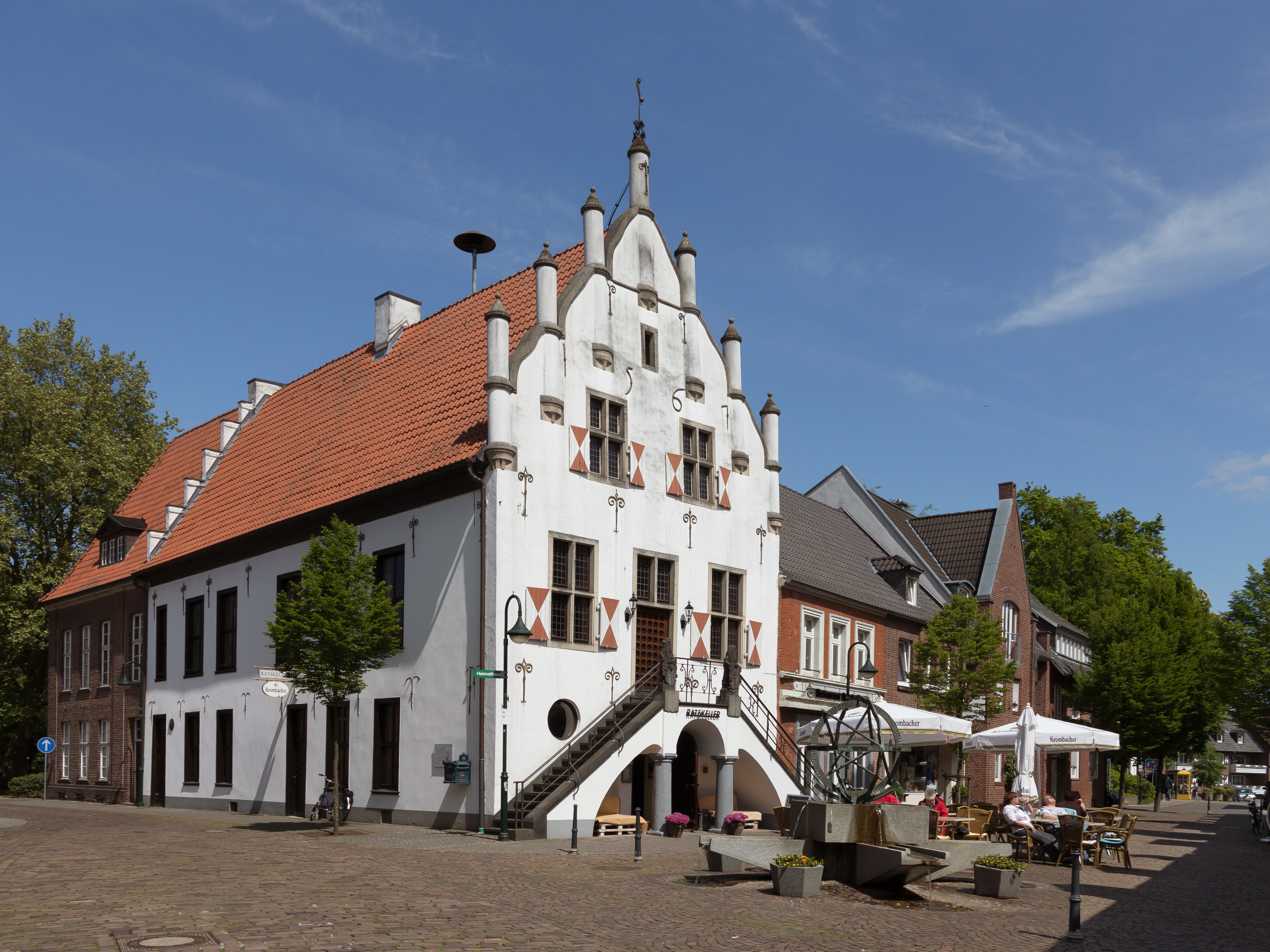 Anholt, townhallThis is a photograph of an architectural monument., no. 7